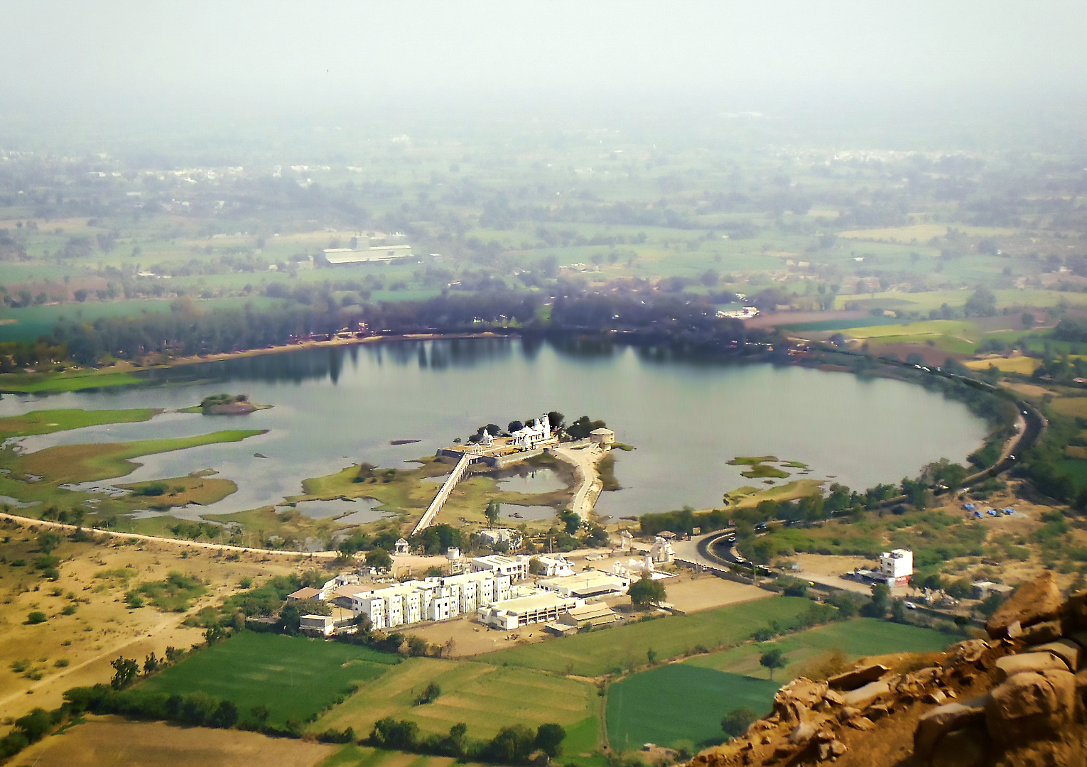 photograph taken from top of the mountain from idar gadh, gujarat, india.